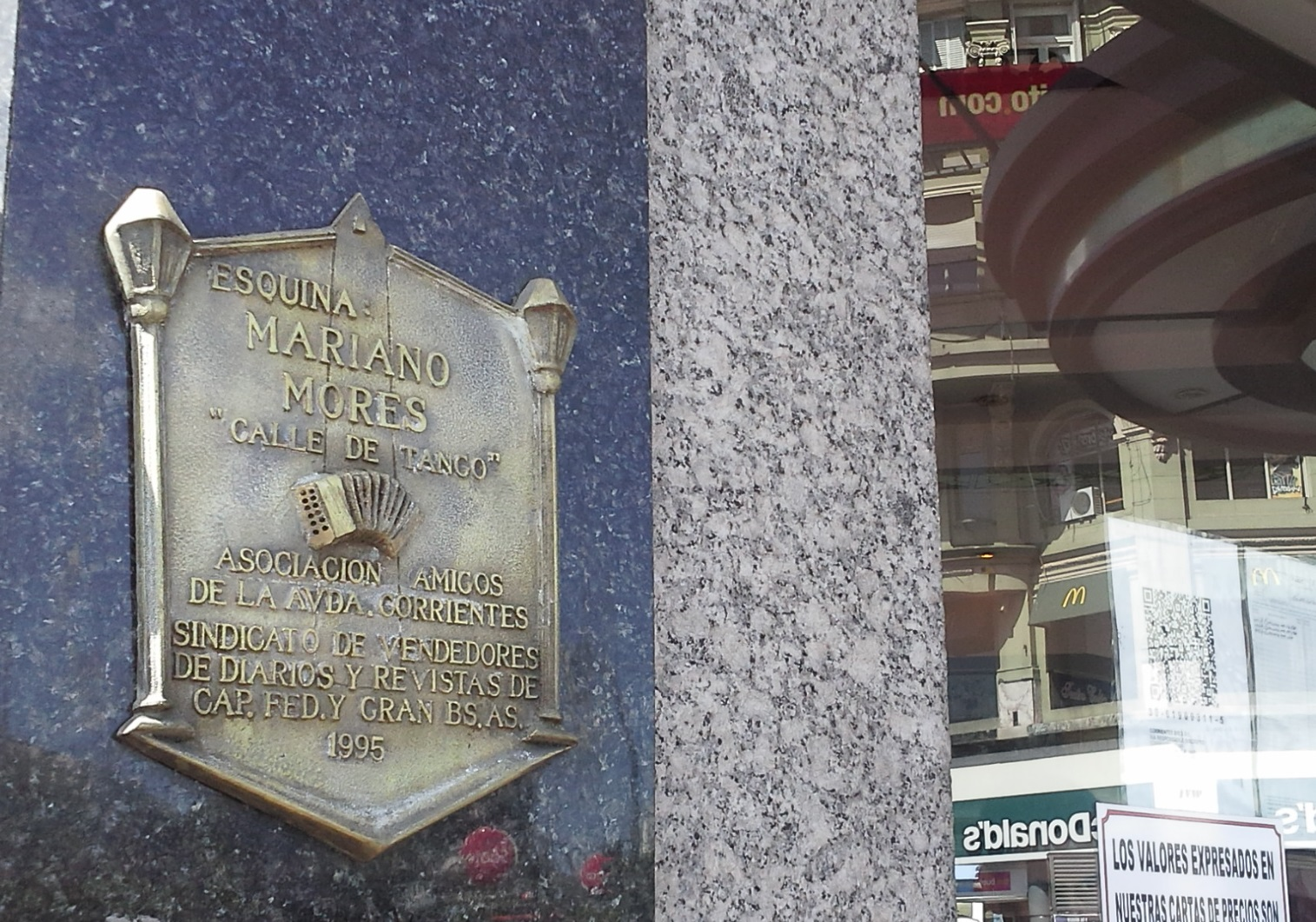 Mariano Mores Corner. Carlos Pellegrini and Corrientes Avenue, NE corner, Buenos Aires.